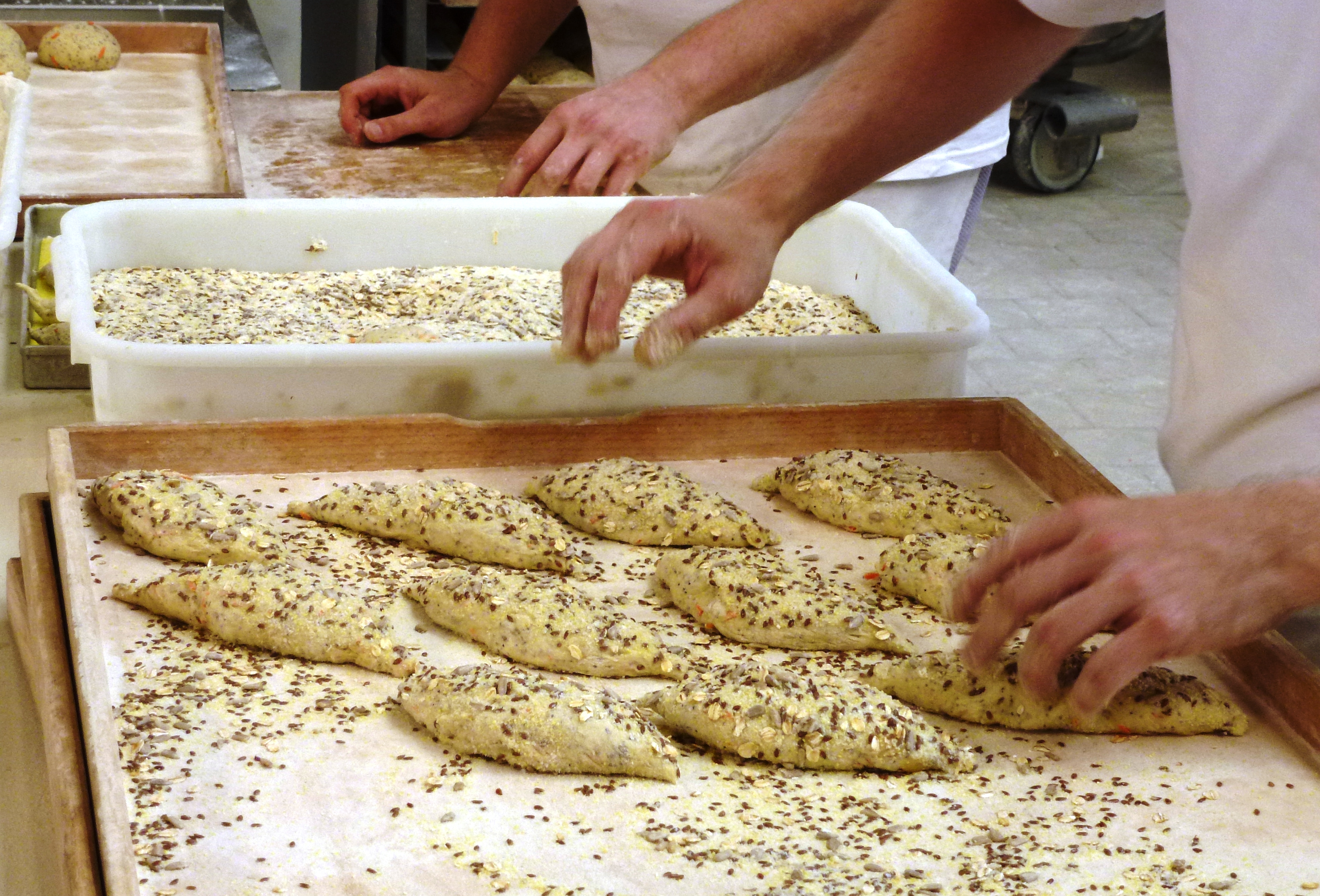 Linseed rolls during preparation in bakery